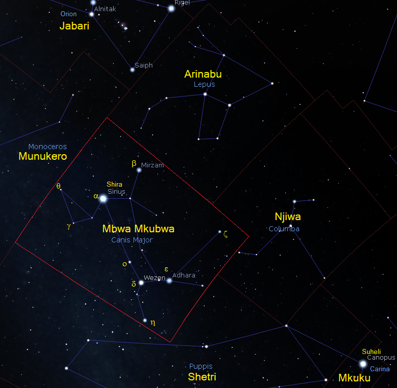 Constellation Canis Major as seen from Tanzania, Swahili labelled Kiswahili: Kiswahili: Kiswahili: Kundinyota Mbwa Mkubwa (Canis Major) jinsi inavyoonekana kutoka Tanzania, majina kwa Kiswahili